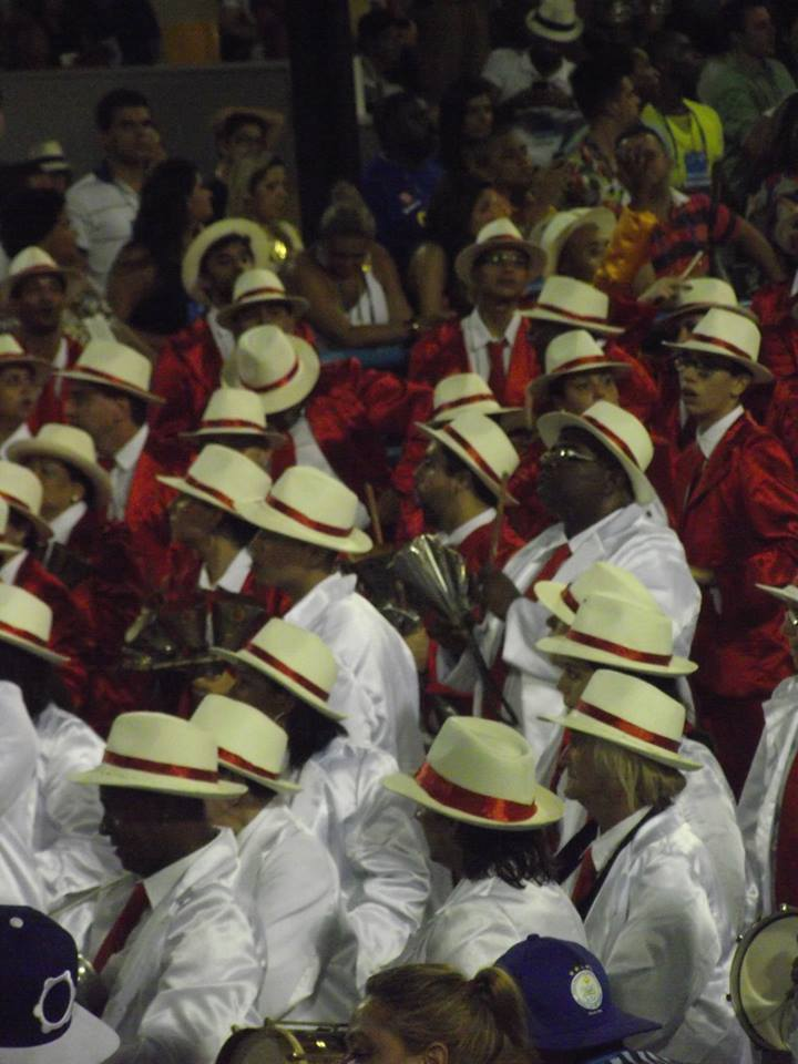 GRES Estácio de Sá